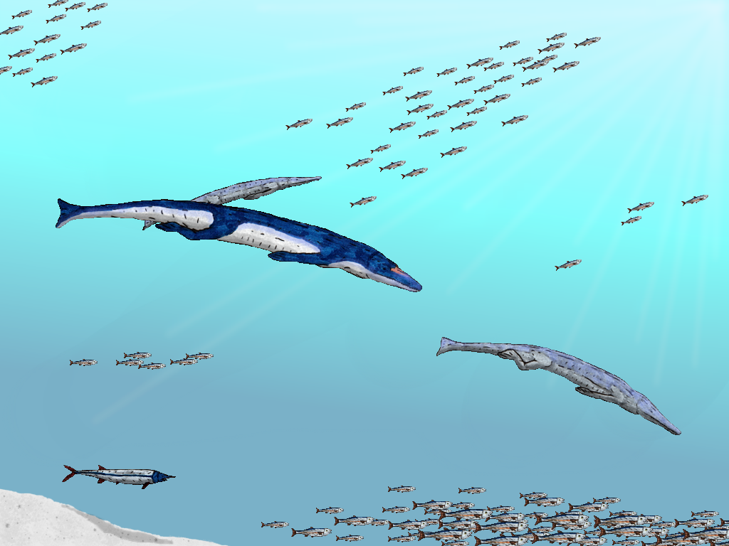 A Geosaurus chases a Metriorhynchus while another individual of Metriorhynchus goes after some Pholidophorus. Near the seabottom swims a lonely Aspidorhynchus, trying to escape from the predators' sight. Both Geosaurus and Metriorhynchus were aquatic crocodylomorphs from the thalattosuchian family Metriorhynchidae. Pholidophorus was a relative of modern telost fish while Aspidorhynchus was a telost-relative as well, it was far more primitive and its family, the Aspidorhynchidae, left no living descendants. The scene plays in Germany from the Late-Jurassic era.